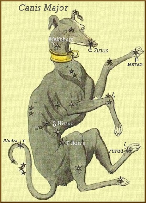 Canis major by Samuel Leigh, 1824